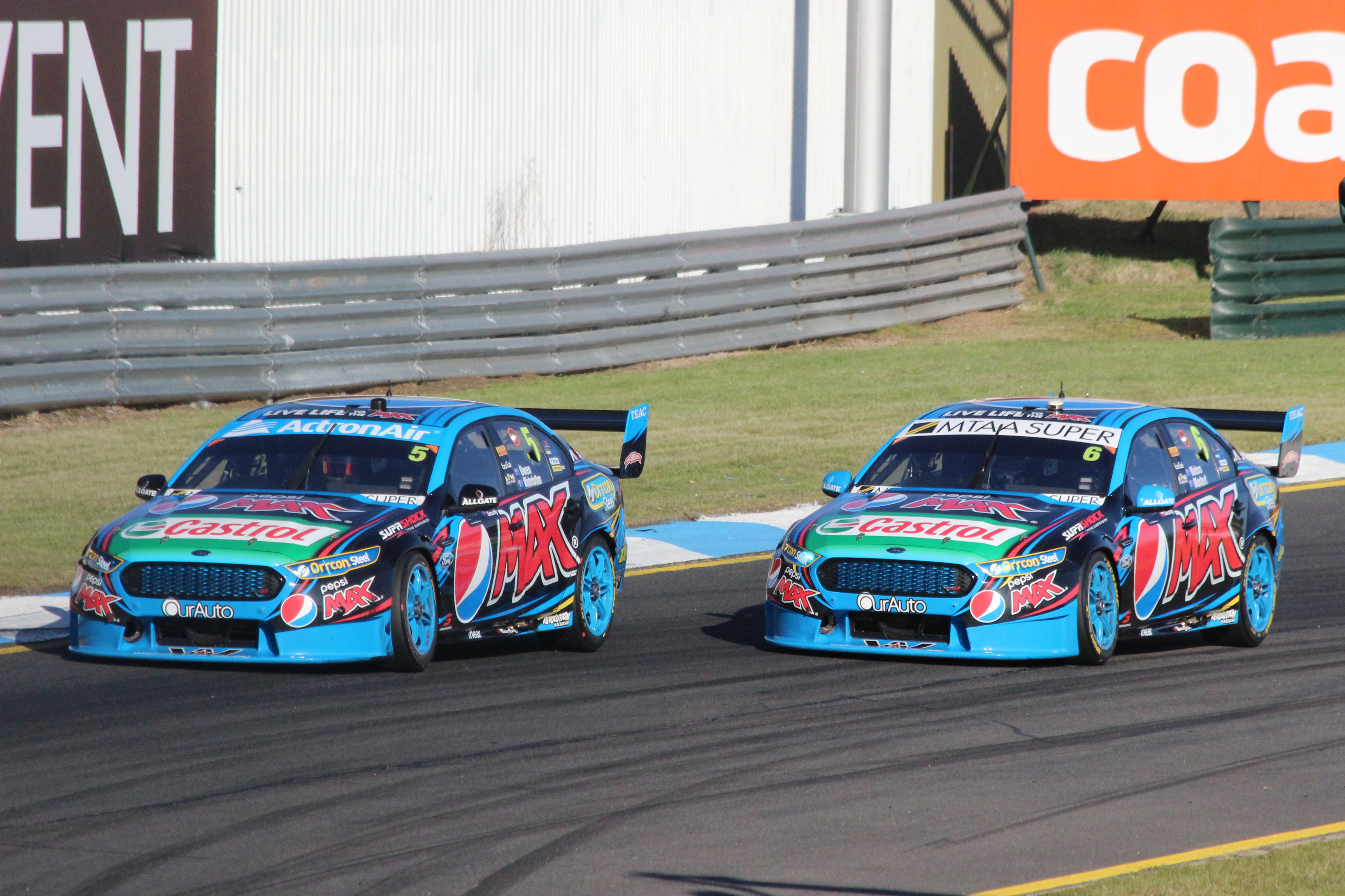 The Prodrive Racing Australia Ford FG X Falcons of Mark Winterbottom and Chaz Mostert during the main driver qualifying race at the 2015 Wilson Security Sandown 500.